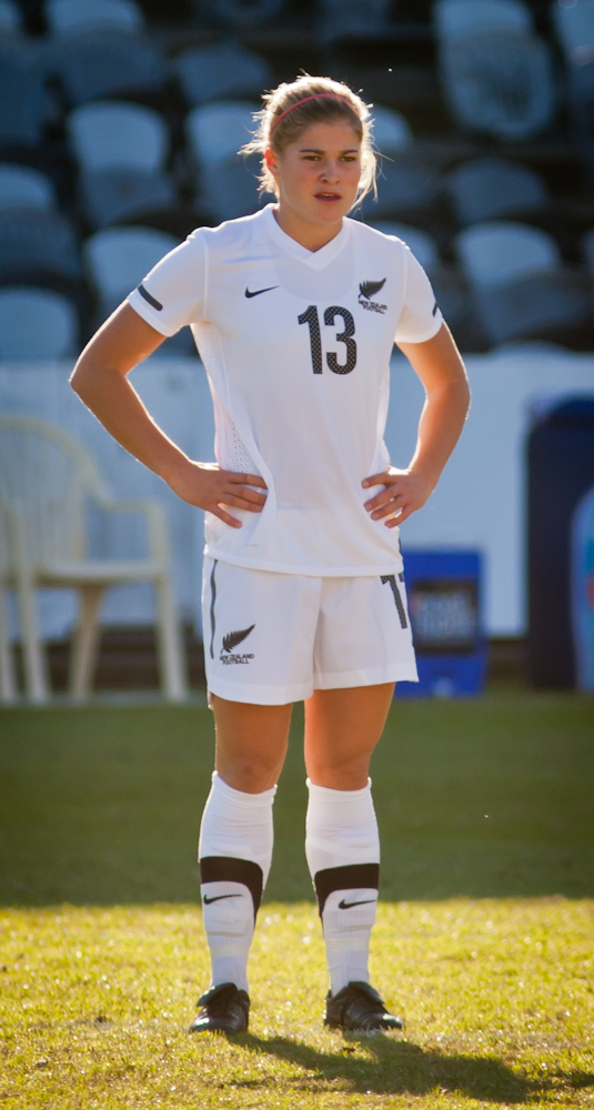 Rosie White playing for the New Zealand women's national football team against Australia.